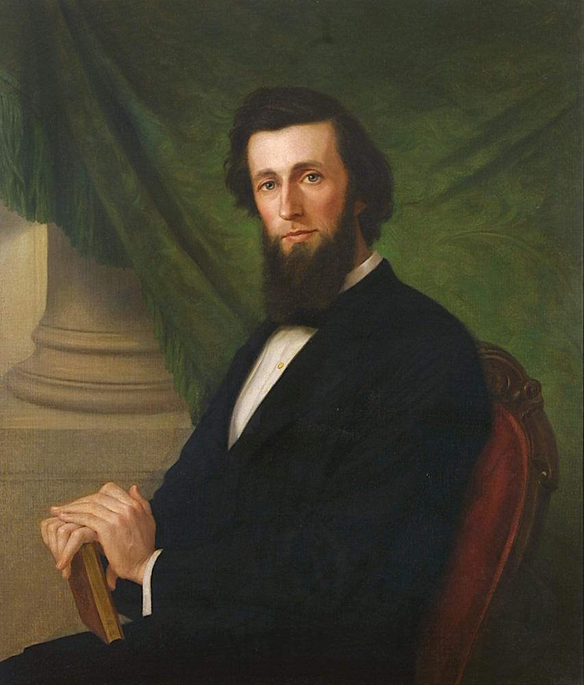 Portrait of Thomas A. Doyle, long-serving mayor of Providence, Rhode Island. Portrait by Oertel, Johannes Adam (1823-1909)